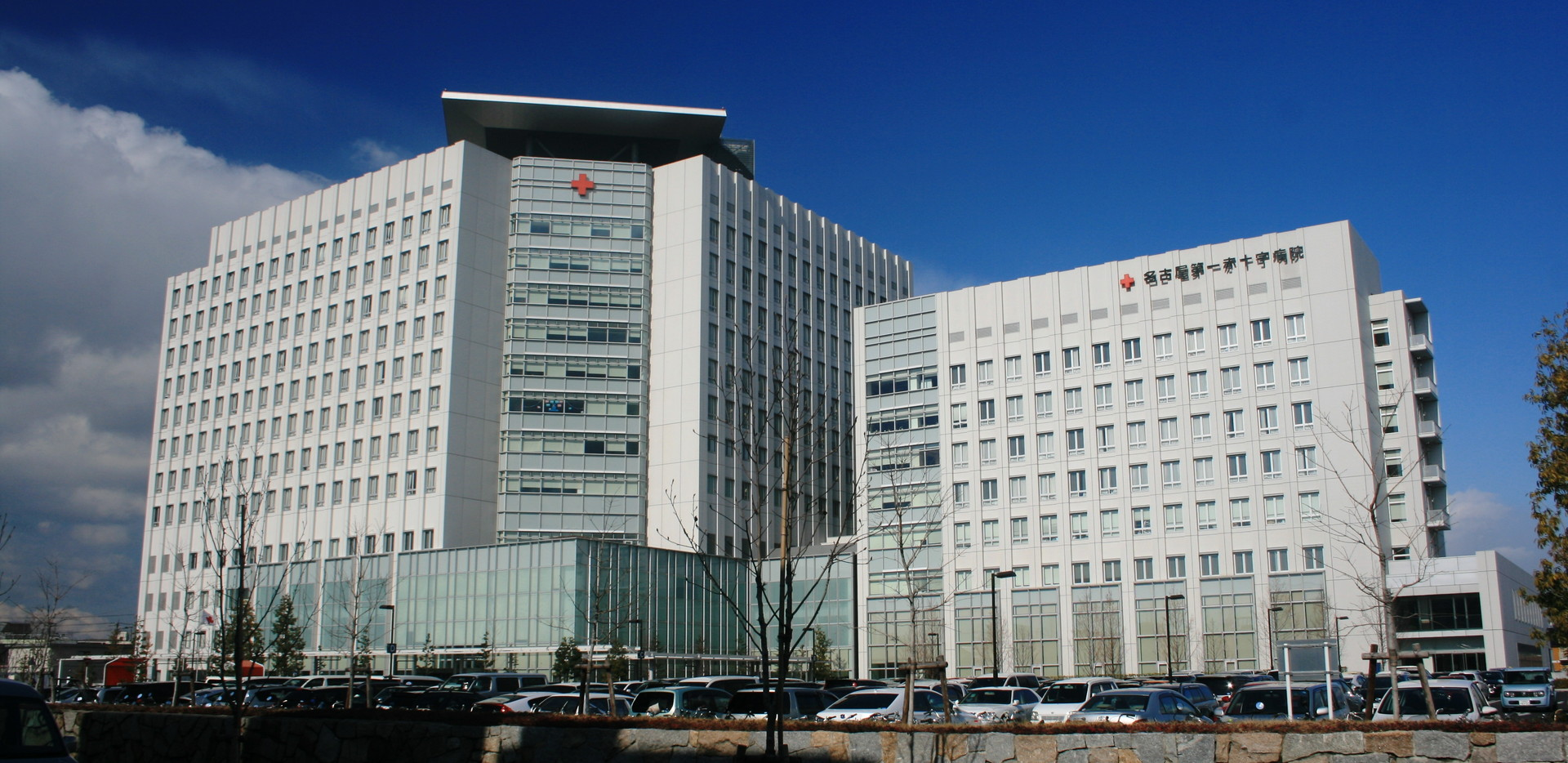 Japanese Red Cross Nagoya Daiichi Hospital